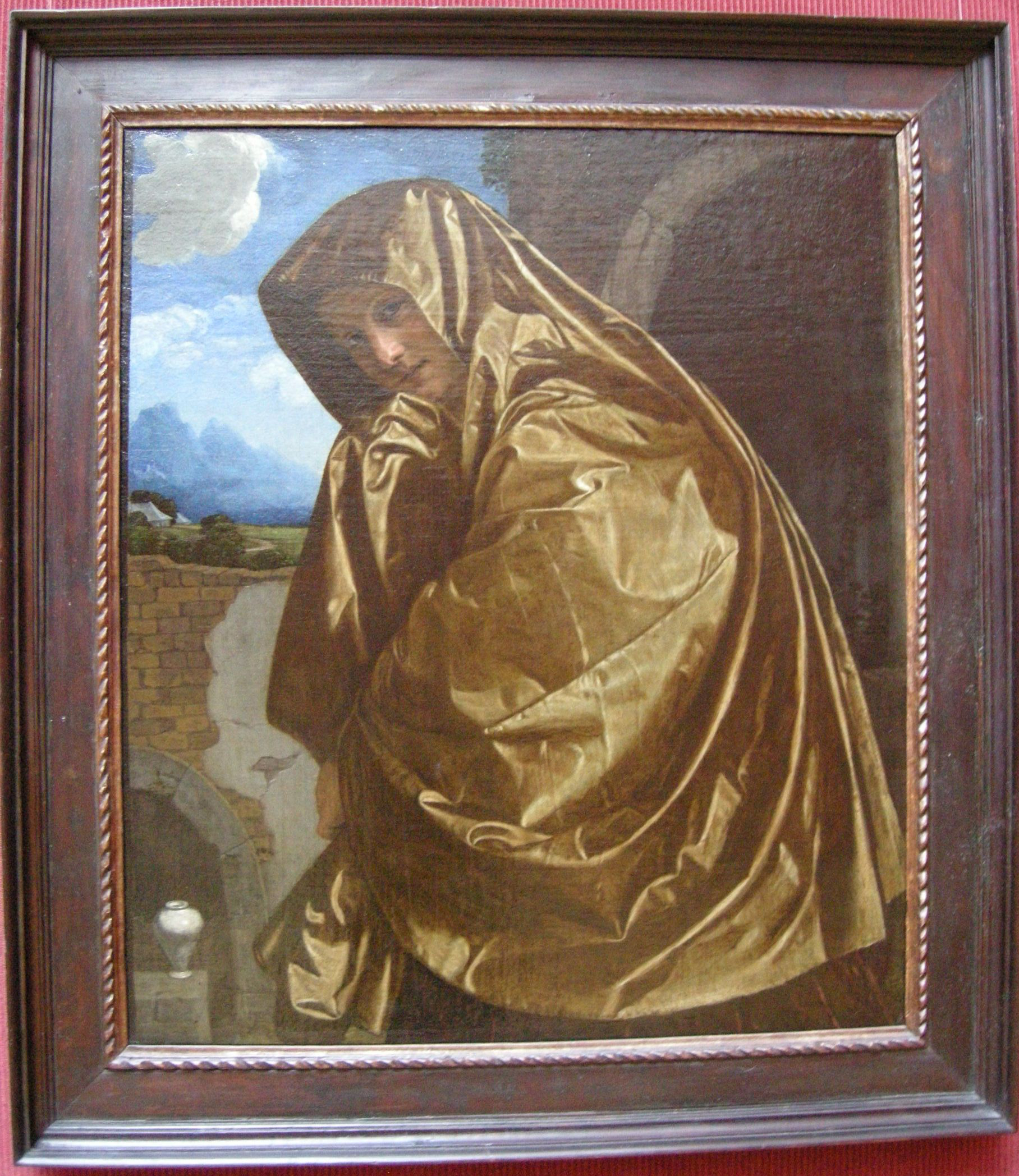 Saint Mary Magdalene at the Sepulcher, oil on canvas painting by Giovanni Gerolamo Savoldo, 1530s, Getty Center